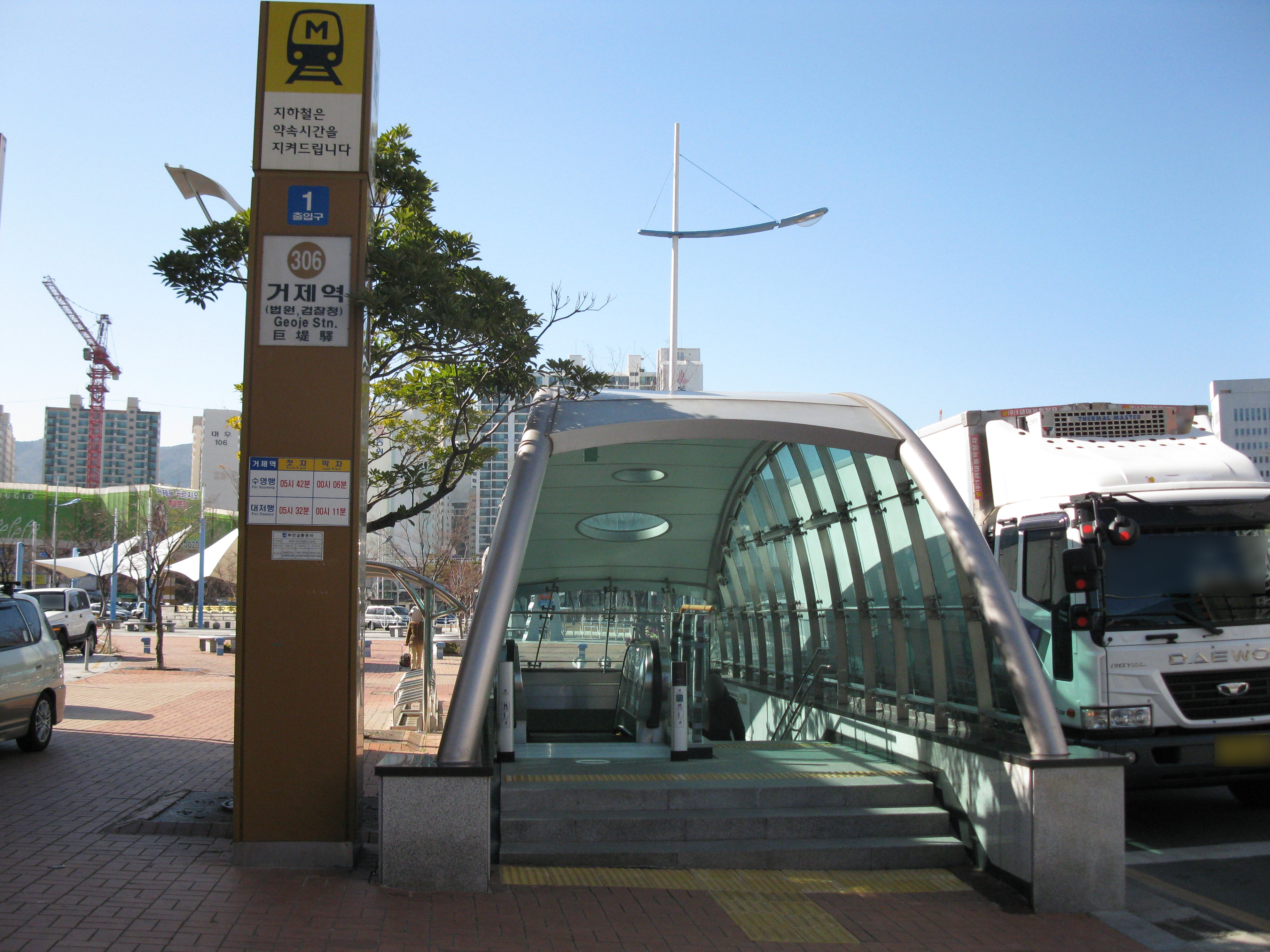 Geoje Station no.1 entrance (Busan Subway Line 3)